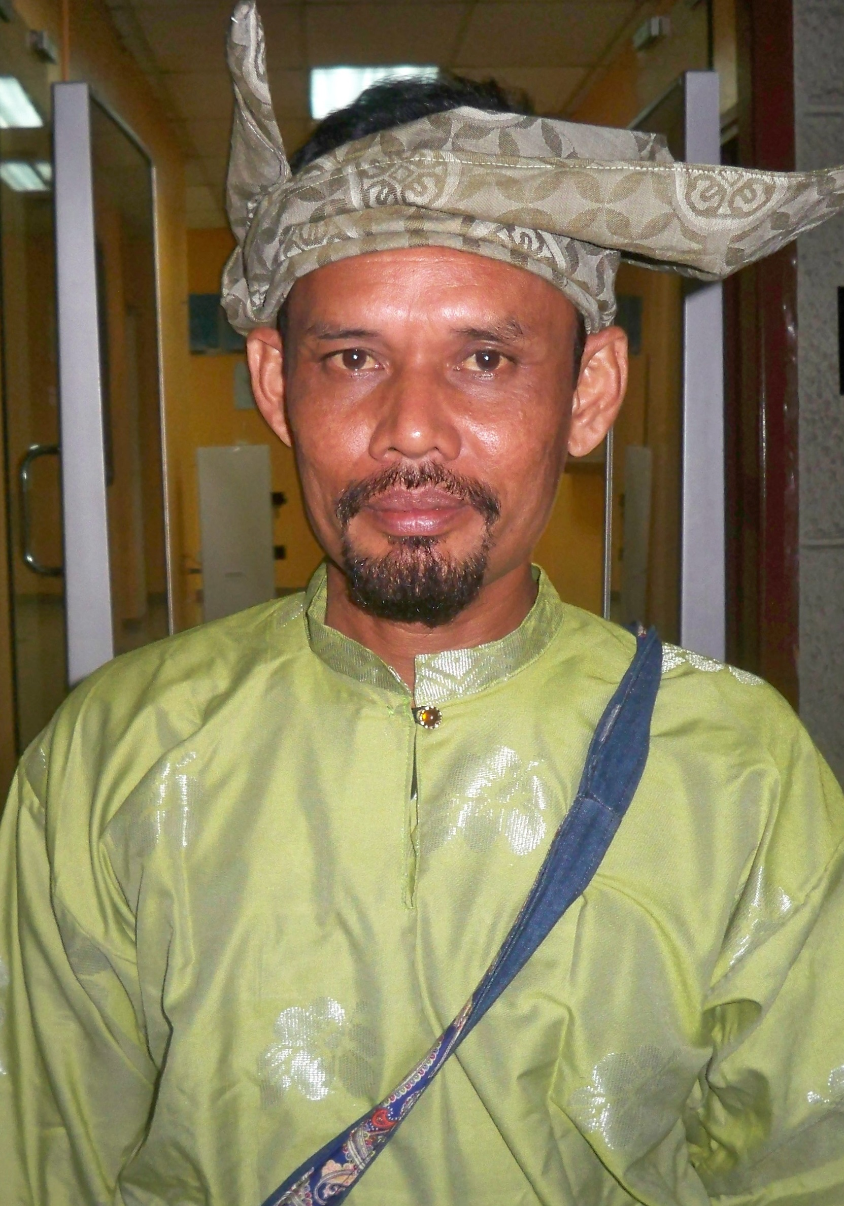 Man Kayan, the founder of the musical group Anak Kayan (Malaysia)